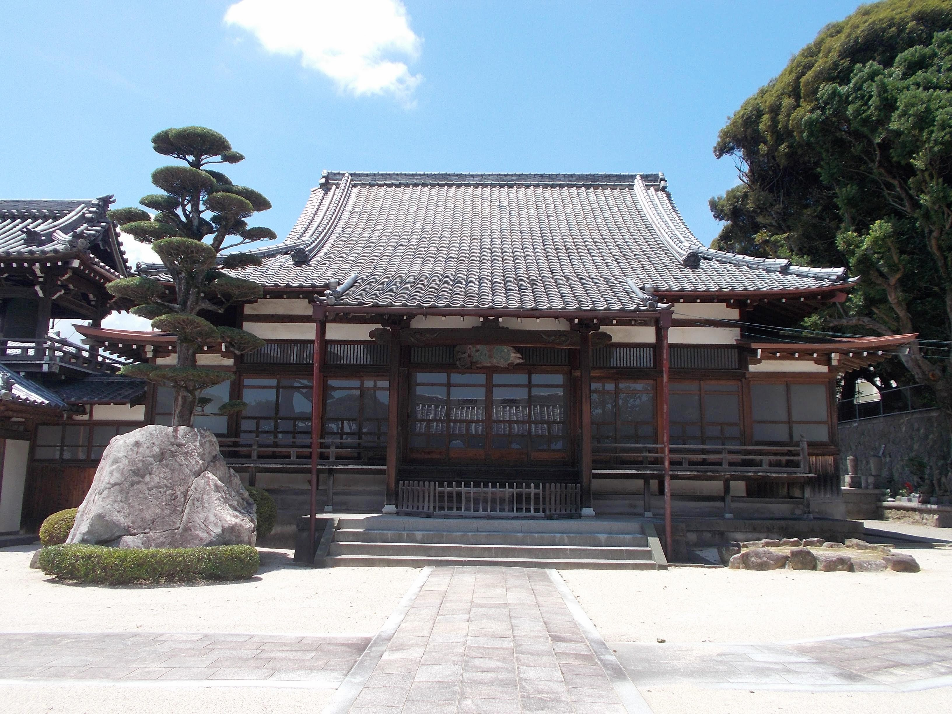 The main hall of Koshu-ji, Minami-ku, Fukuoka, Japan